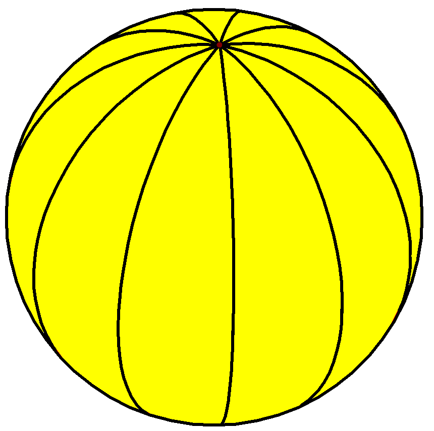 Spherical polyhedron